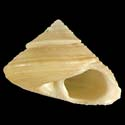 Calliostoma mariae Poppe, Tagaro & Dekker, 2006